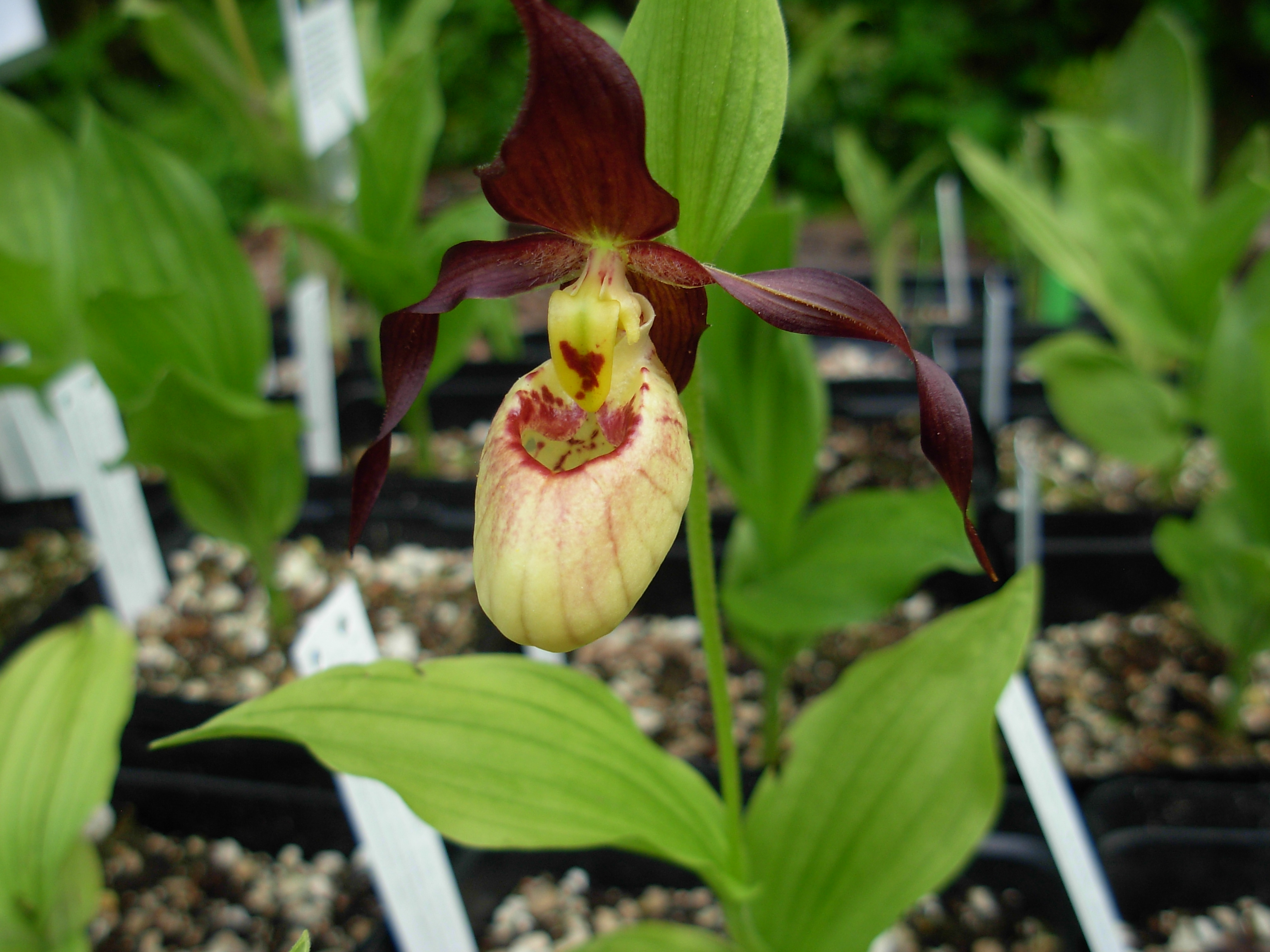 Keeping It Green Nursery Arlen Hill has some outstanding orchids, worth a visit to Stanwood, Washington i051808 204